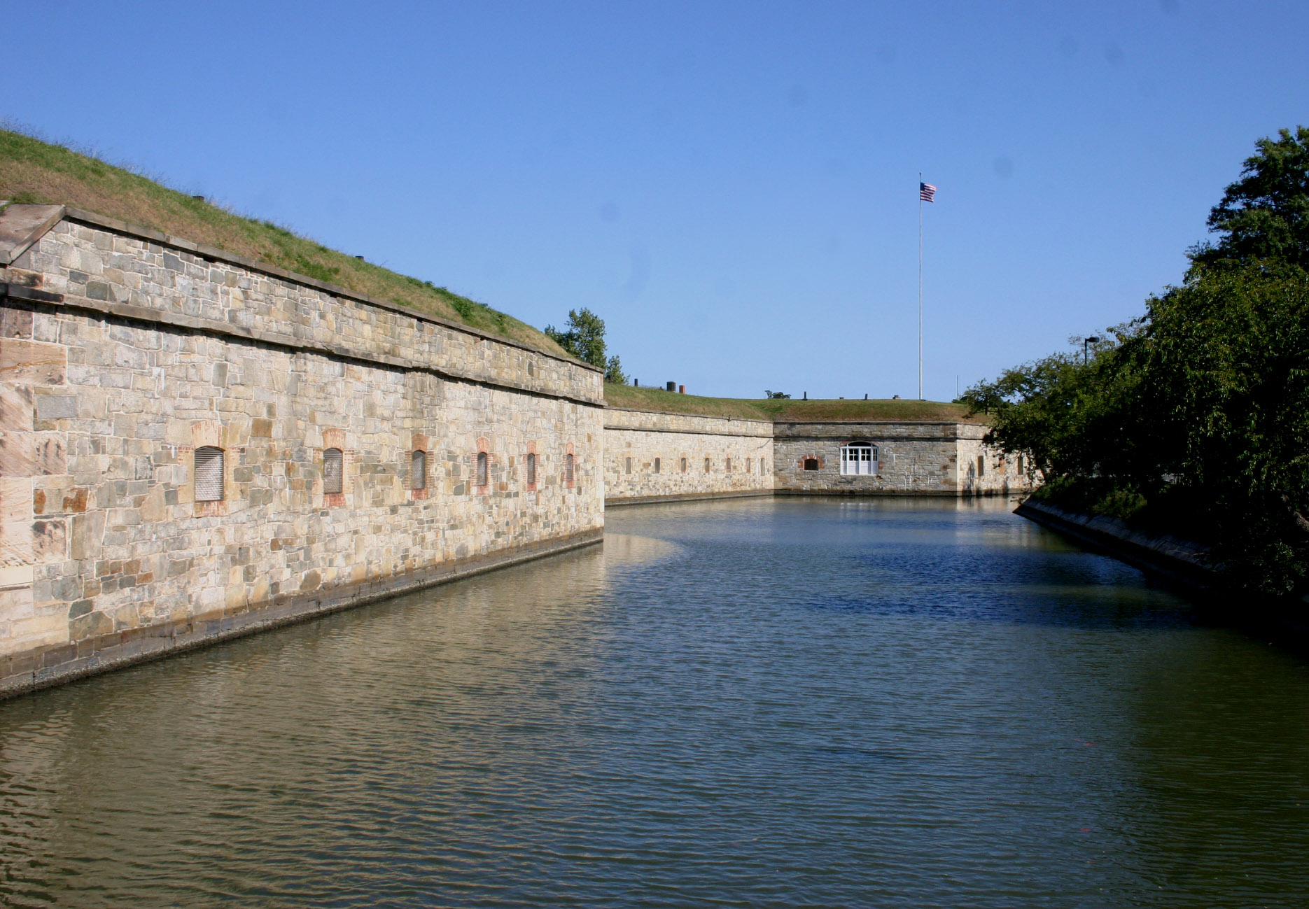 Fort Monroe, Virginia (also known as Fortress Monroe) is a military installation located at Old Point Comfort on the tip of the Virginia Peninsula at the mouth of Hampton Roads on the Chesapeake Bay in eastern Virginia in the United States. For more info, please see talkpage.